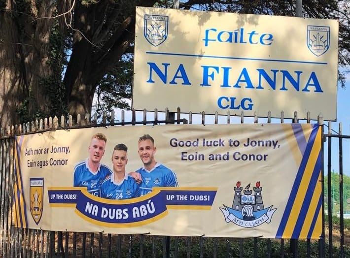 Sign outside main gate of Na Fianna and a banner supporting the Dublin football team in the 2019 All Ireland Final.